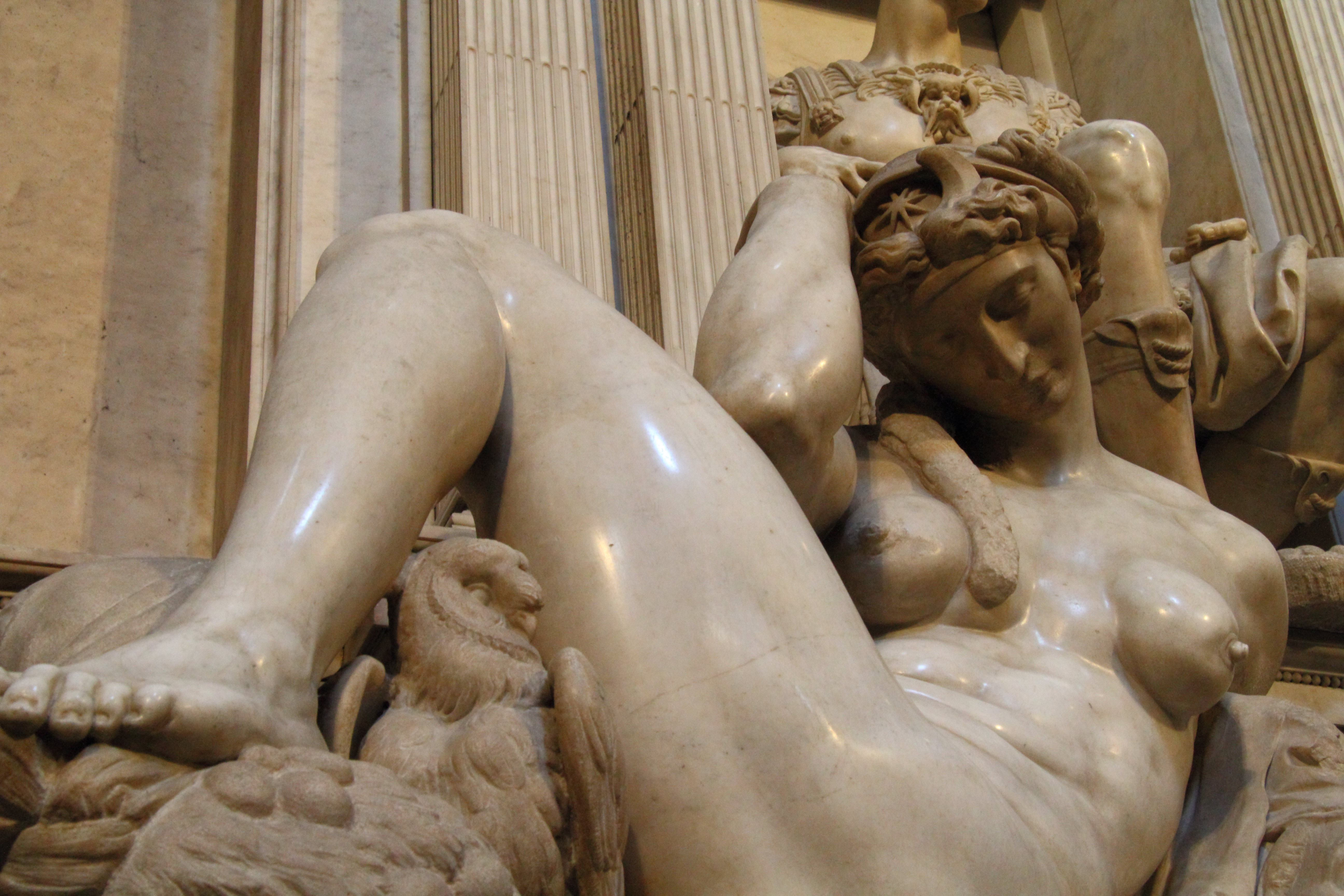 Florence, Italy: Basilica of San Lorenzo, Florence, New Sacristy, statue of the "Night", by Michelangelo